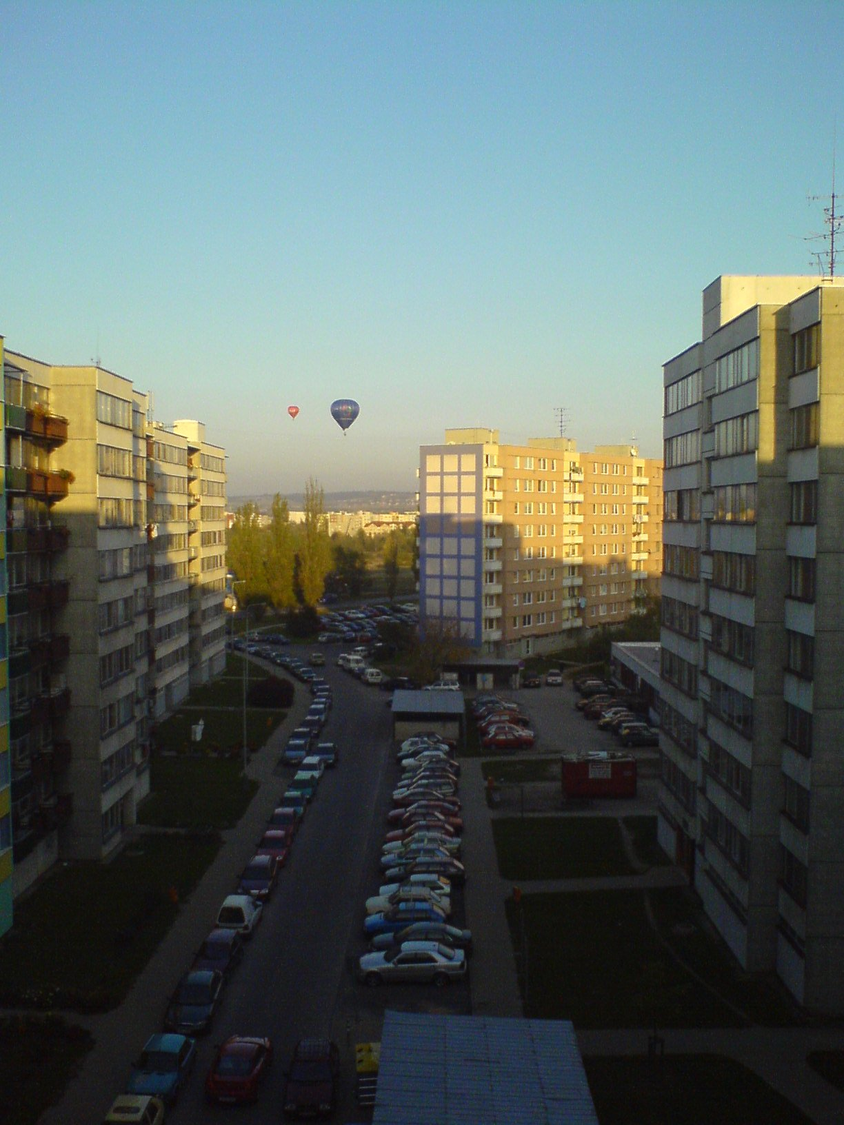 K. Štěcha Street in České Budějovice, Czech Republic